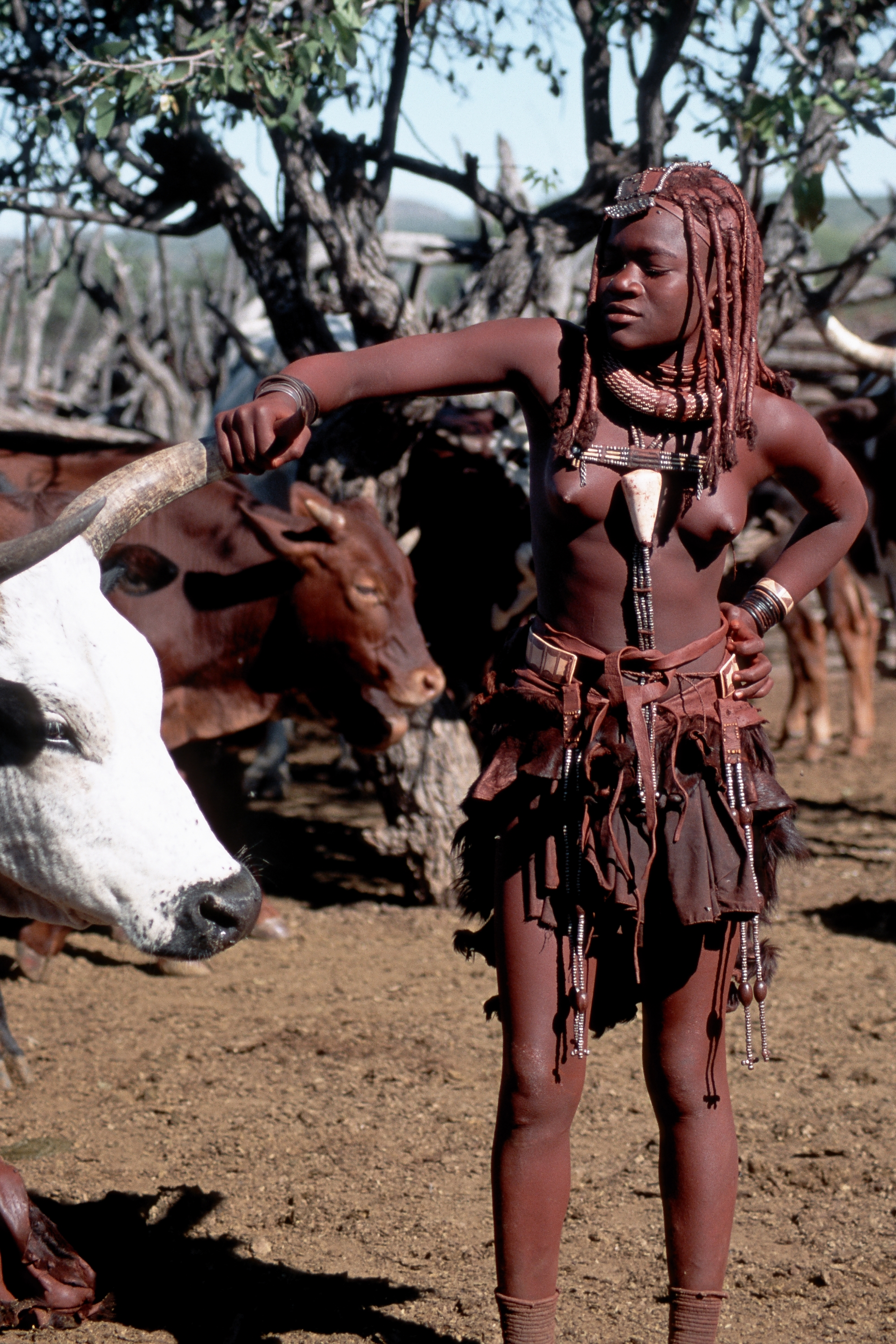 Himba girl at work